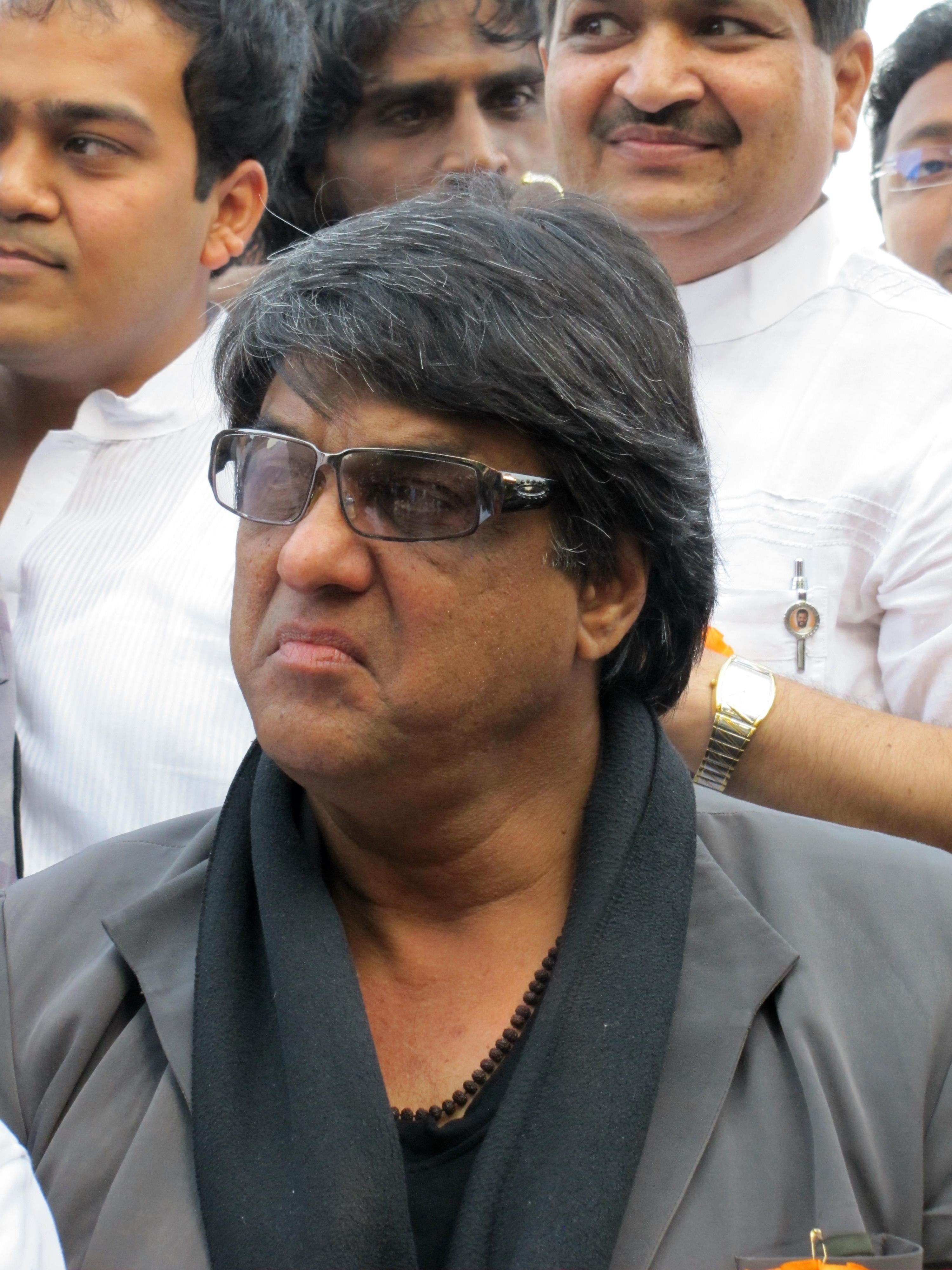 Mukesh Khanna during peace rally conducted in Mumbai on 20th November, 2011 at 7:30AM